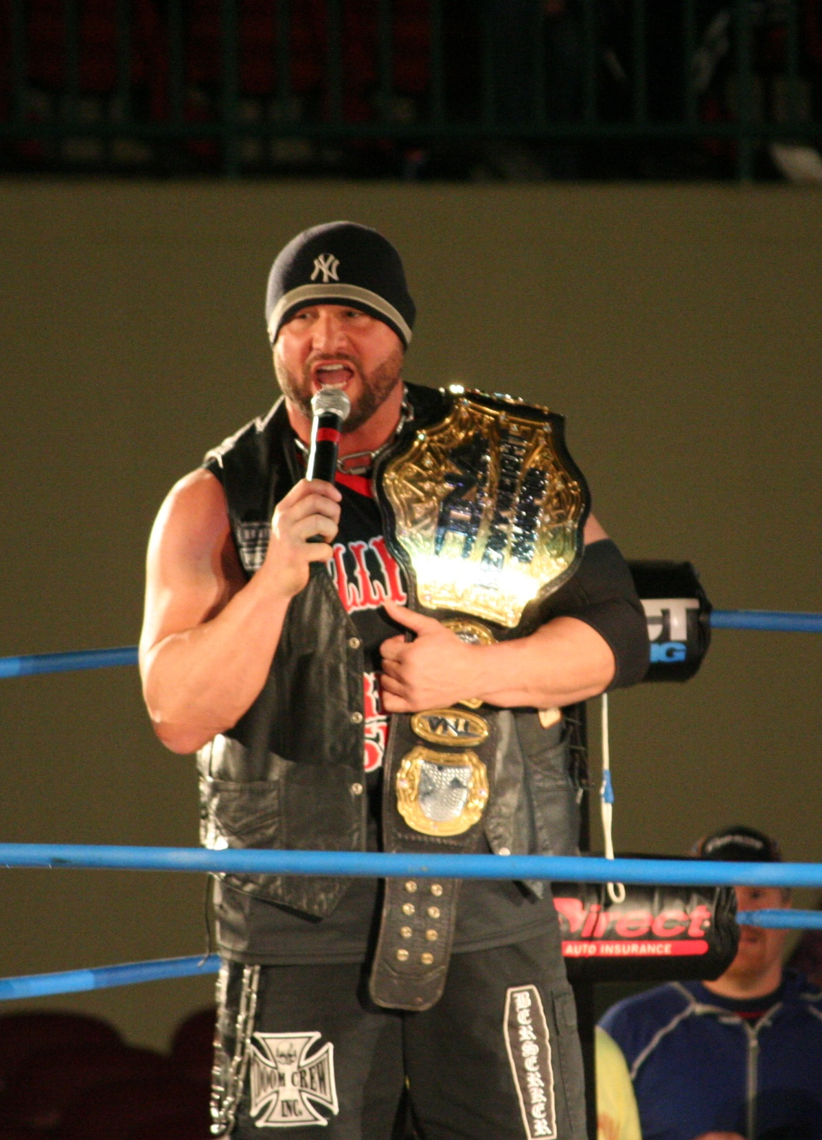 This image was cropped of File:TNA Champion Bully Ray 2.jpg.